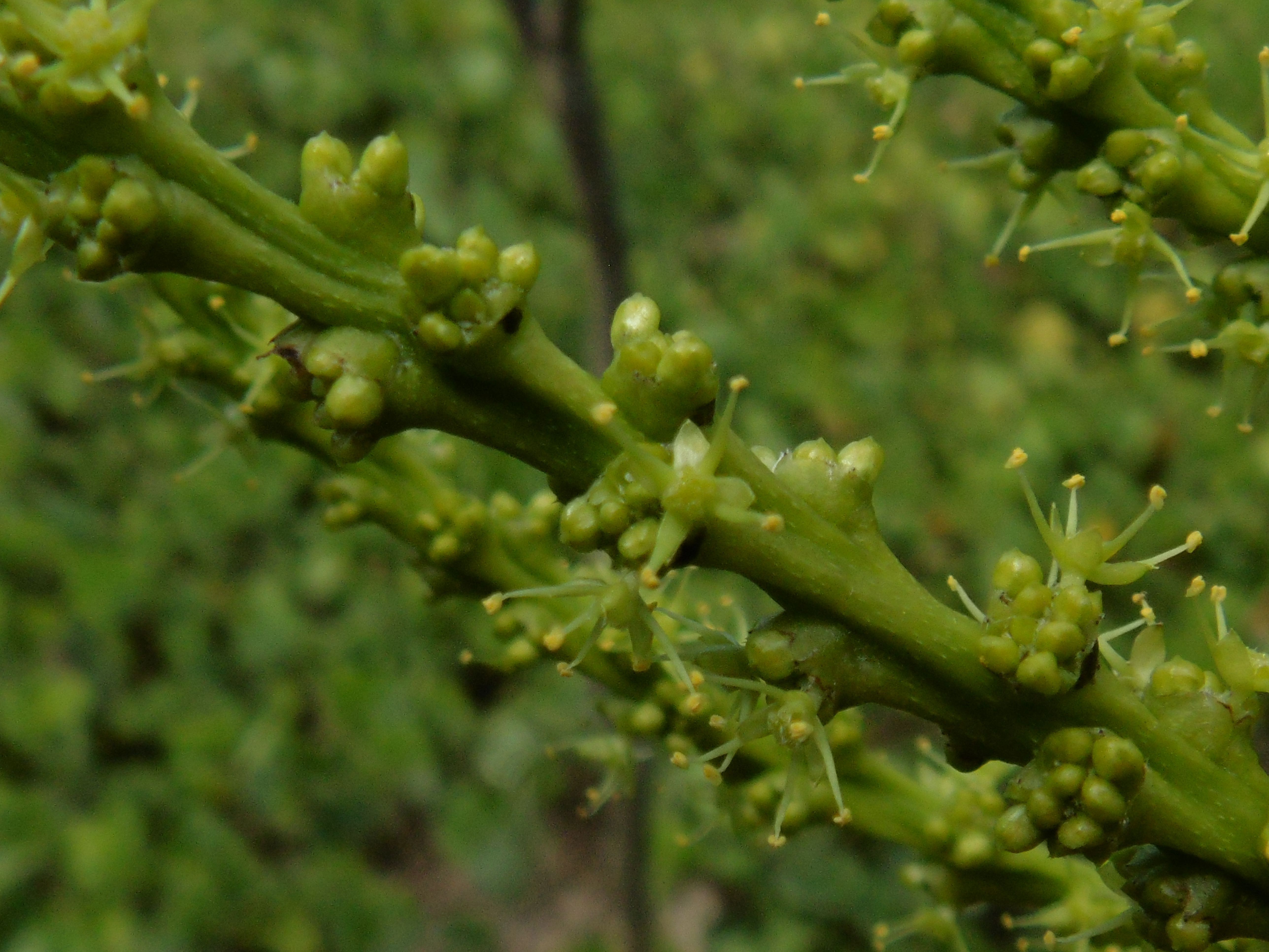 Puerto Gaitan- Meta,Colombia